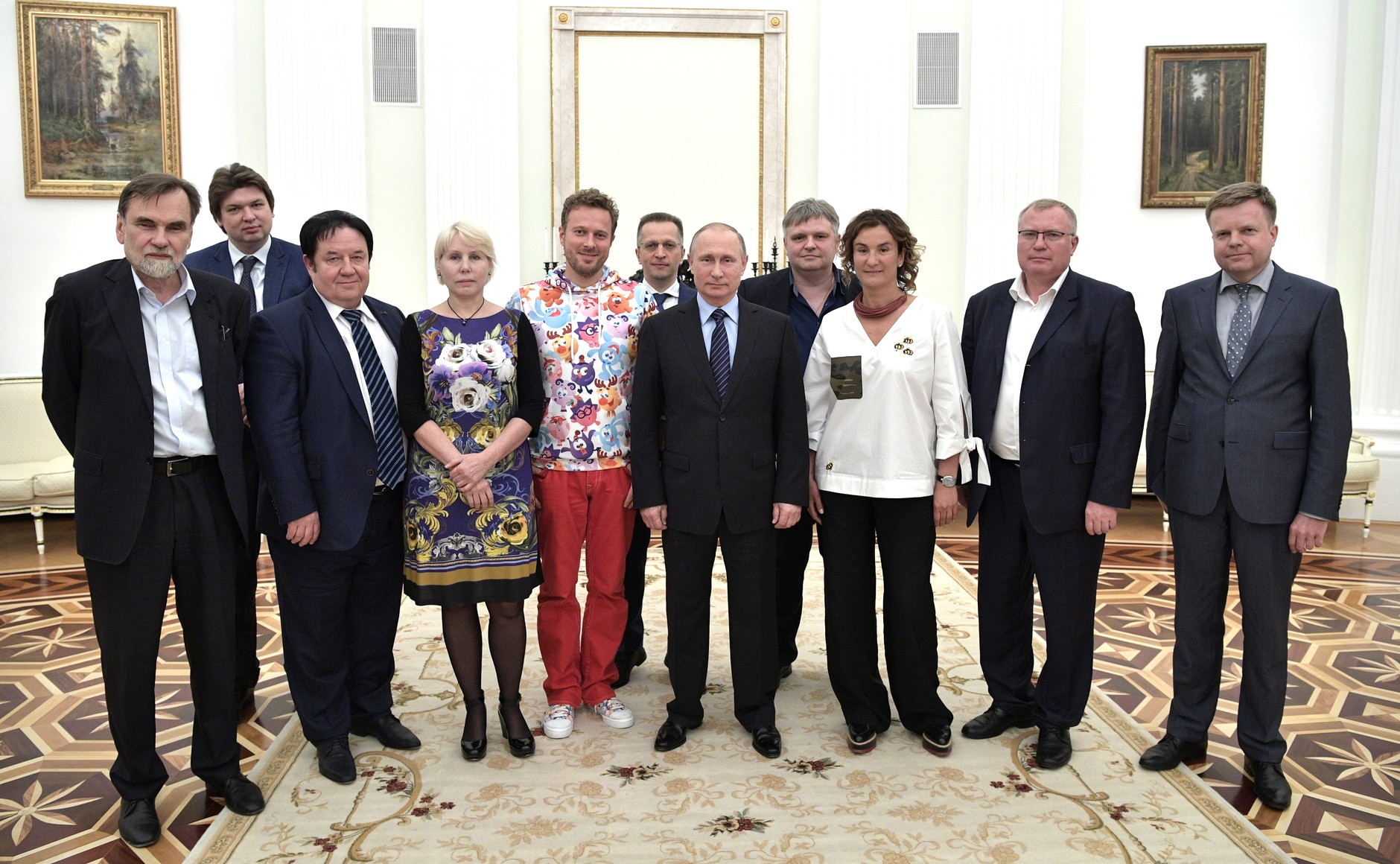 Vladimir Putin with Russian animators